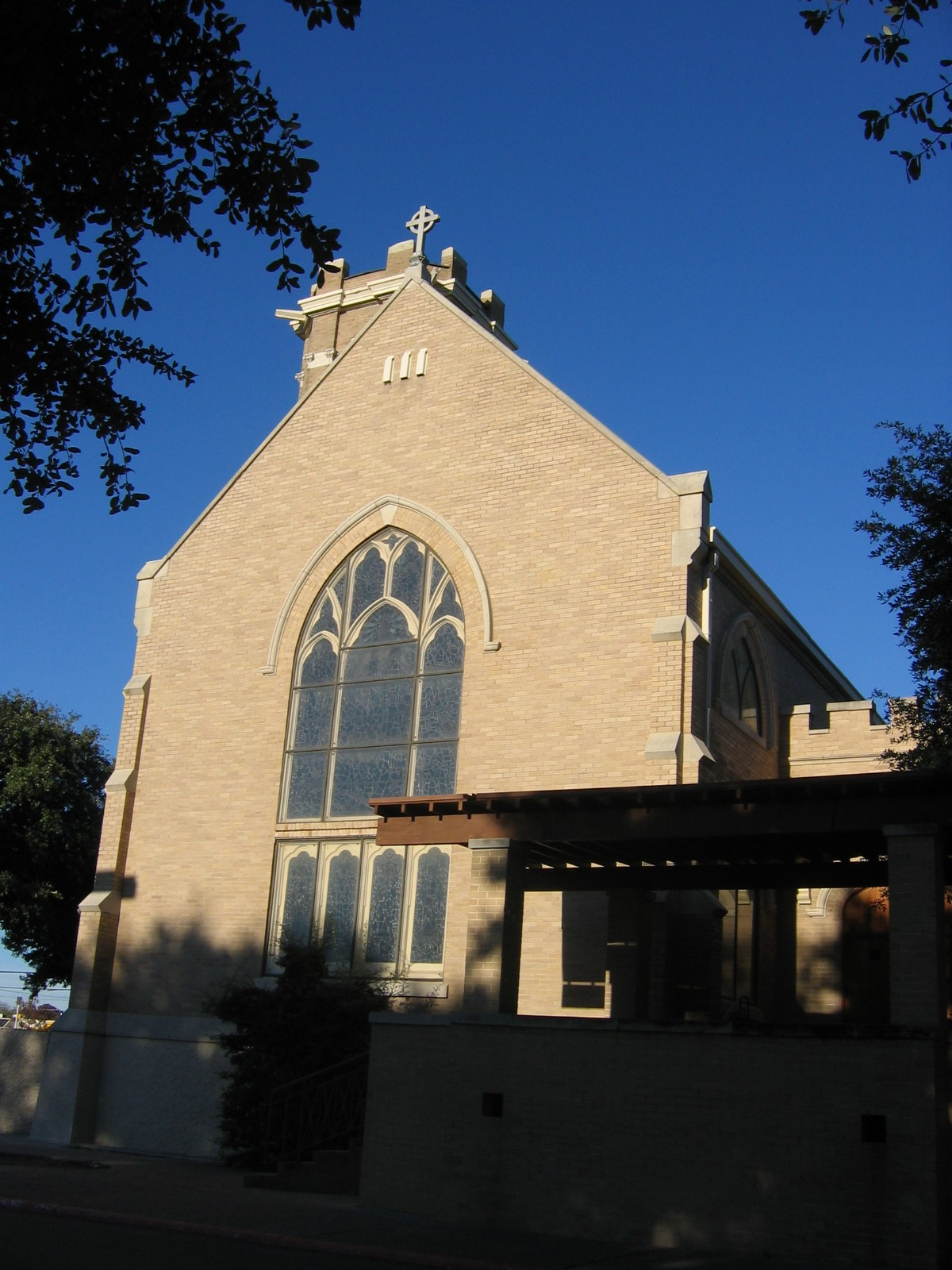 This is a photograph of the west end of the Cathedral Church of Saint Matthew in Dallas, Texas. This is my photograph and you are welcome to use it. Sarum blue|User:Sarum blue|Sarum blue 15:08, 21 February 2006 (UTC)